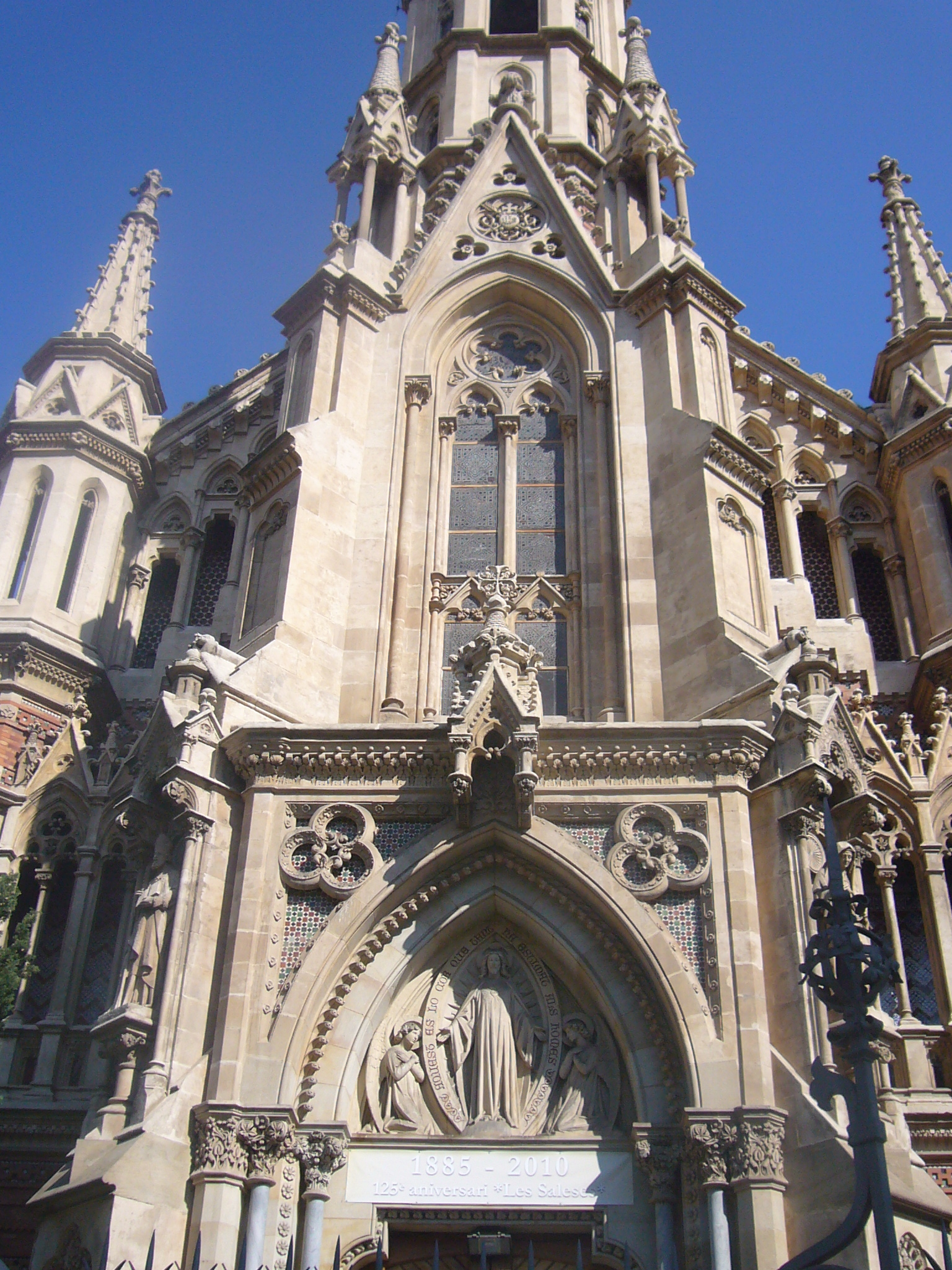 Visitation church and monastery. Passeig de Sant Joan, Barcelona.